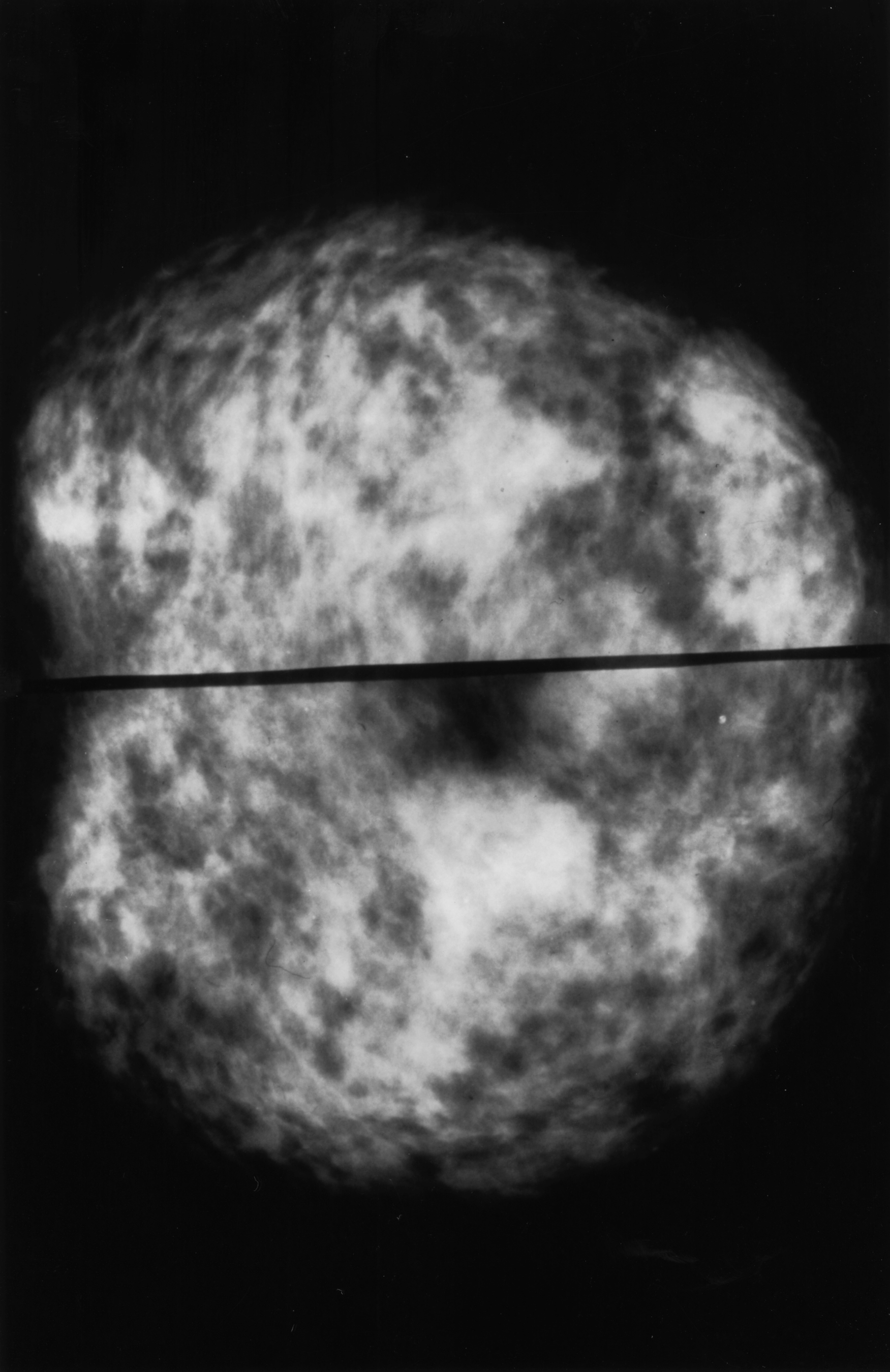 Title Mammogram Showing Normal Dense Breasts Description Two mammograms of normal dense breasts. A dense breast makes a mammographic image difficult to read when and if cancerous lesions are present. These images are typical of breast of younger women. Topics/Categories Anatomy -- Breast Test or Procedure -- Imaging Procedures Type B&W, Photo Source Dr. Dwight Kaufman. Division Of Cancer Treatment